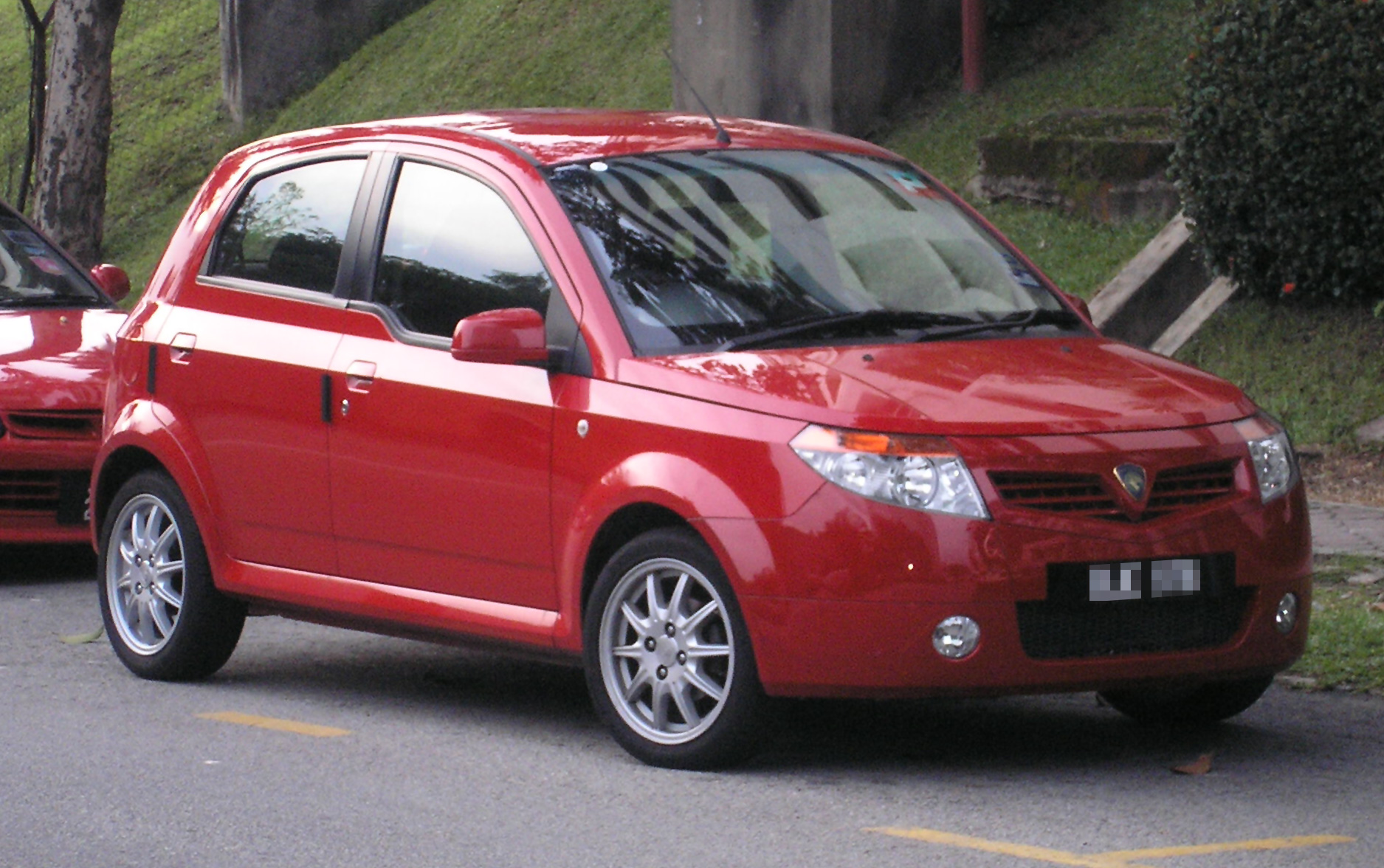 Front-side shot of a Proton Savvy, in Kuala Lumpur, Malaysia.